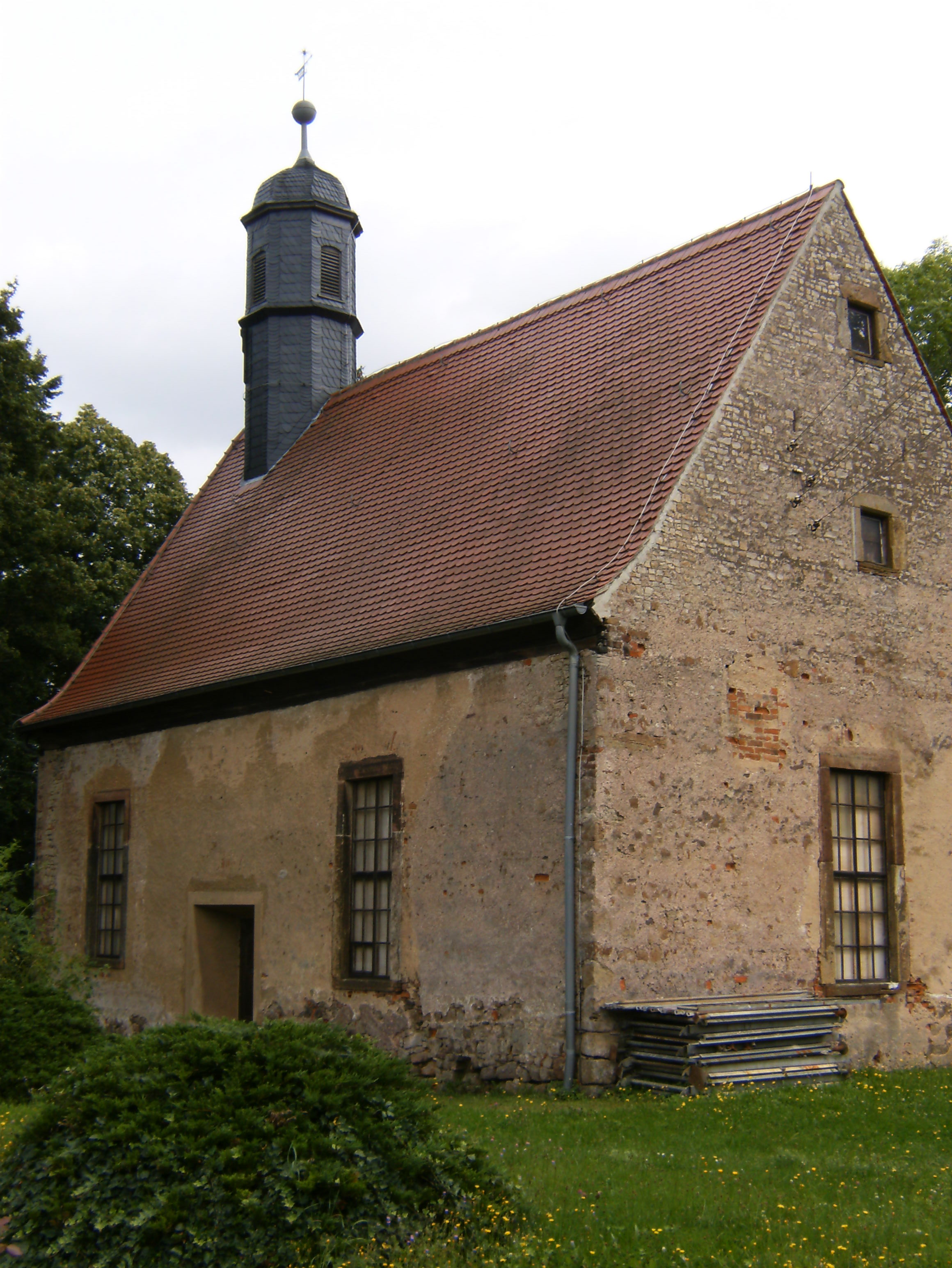 Kaimberg, further manor chapel.